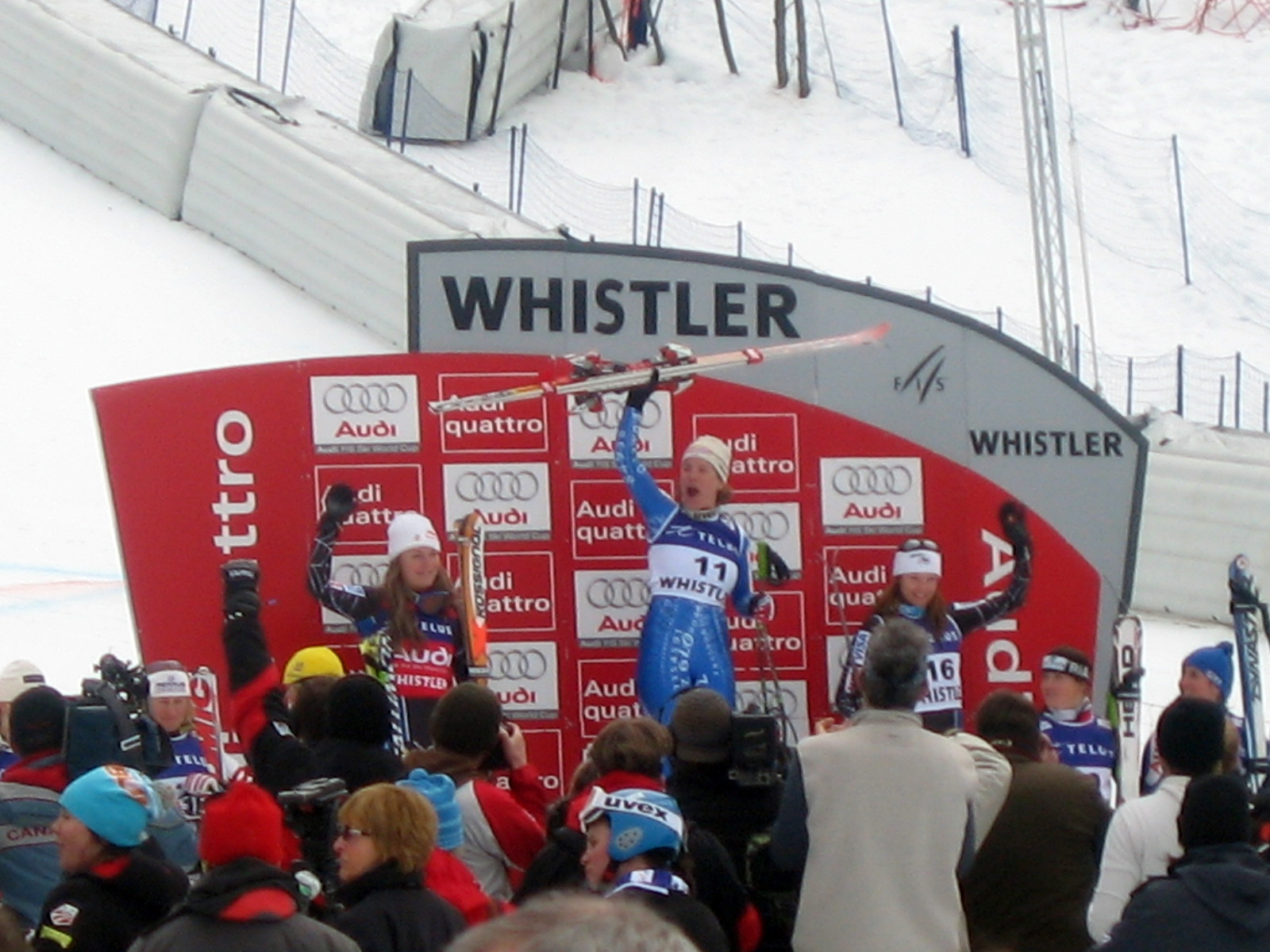 N. Styger won, followed by Lindsey Vonn (by 1/100th of a sec.) And Julia Mancuso - Two Americans on the podium, doesn't happen often, nice work!